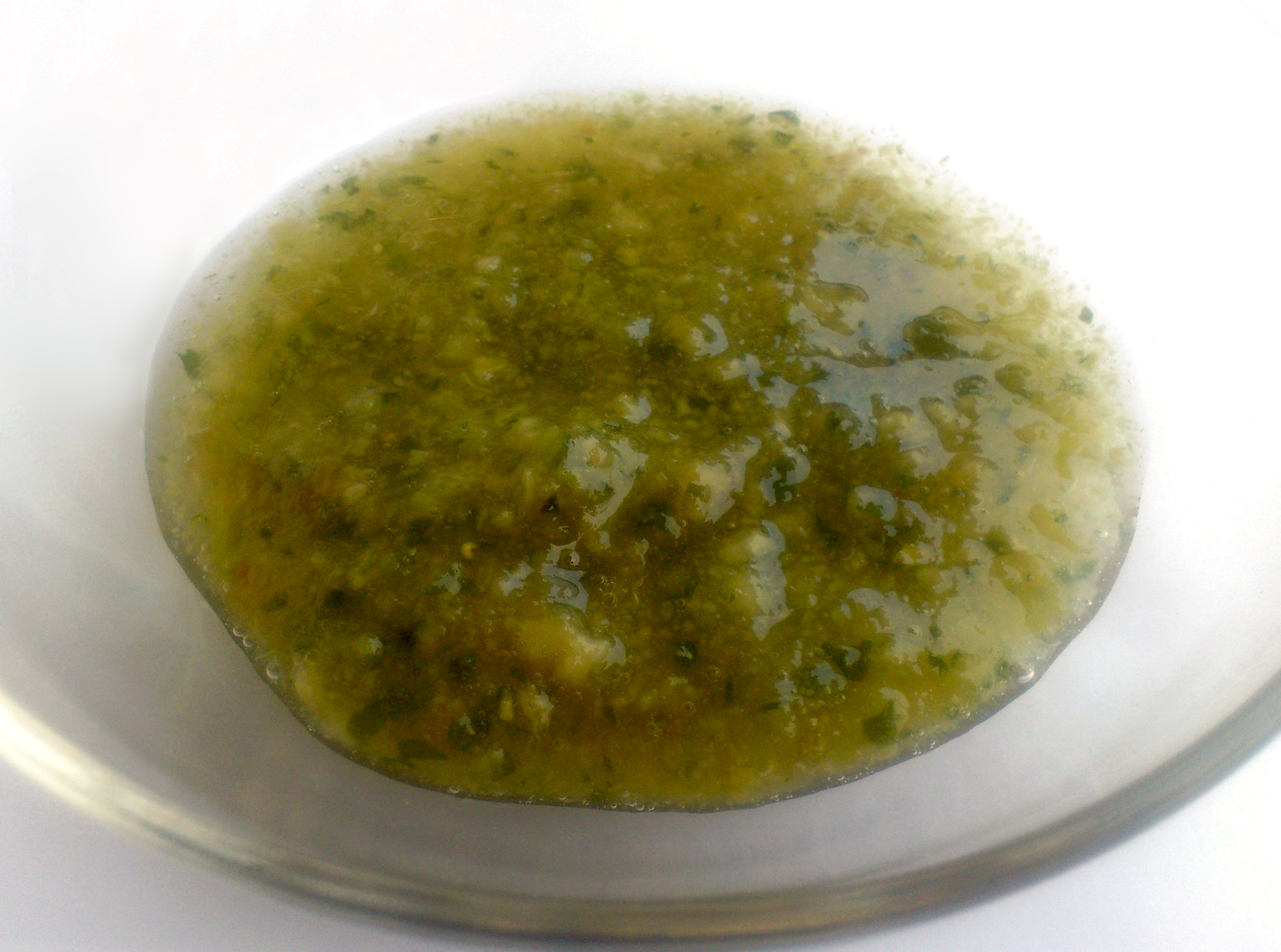 Feijoa spread: mashed feijoa fruits mixed with sugar